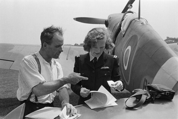 Faith Margaret Ellen Bennett (1903–1969) was a British actress and ATA pilot - here signing for a spitfire on ATA duty. Guess 1942